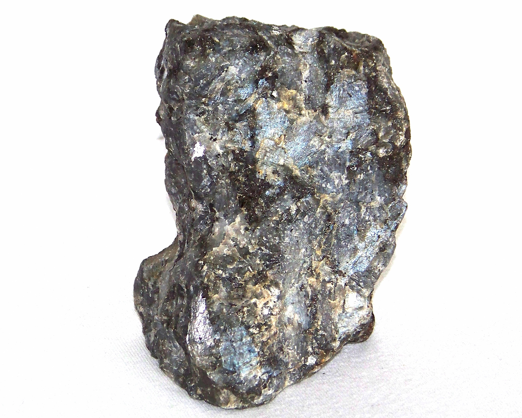 Anorthosite - Labrodarote from Woliborz near Nowa Ruda, Lower Silesia, Poland.